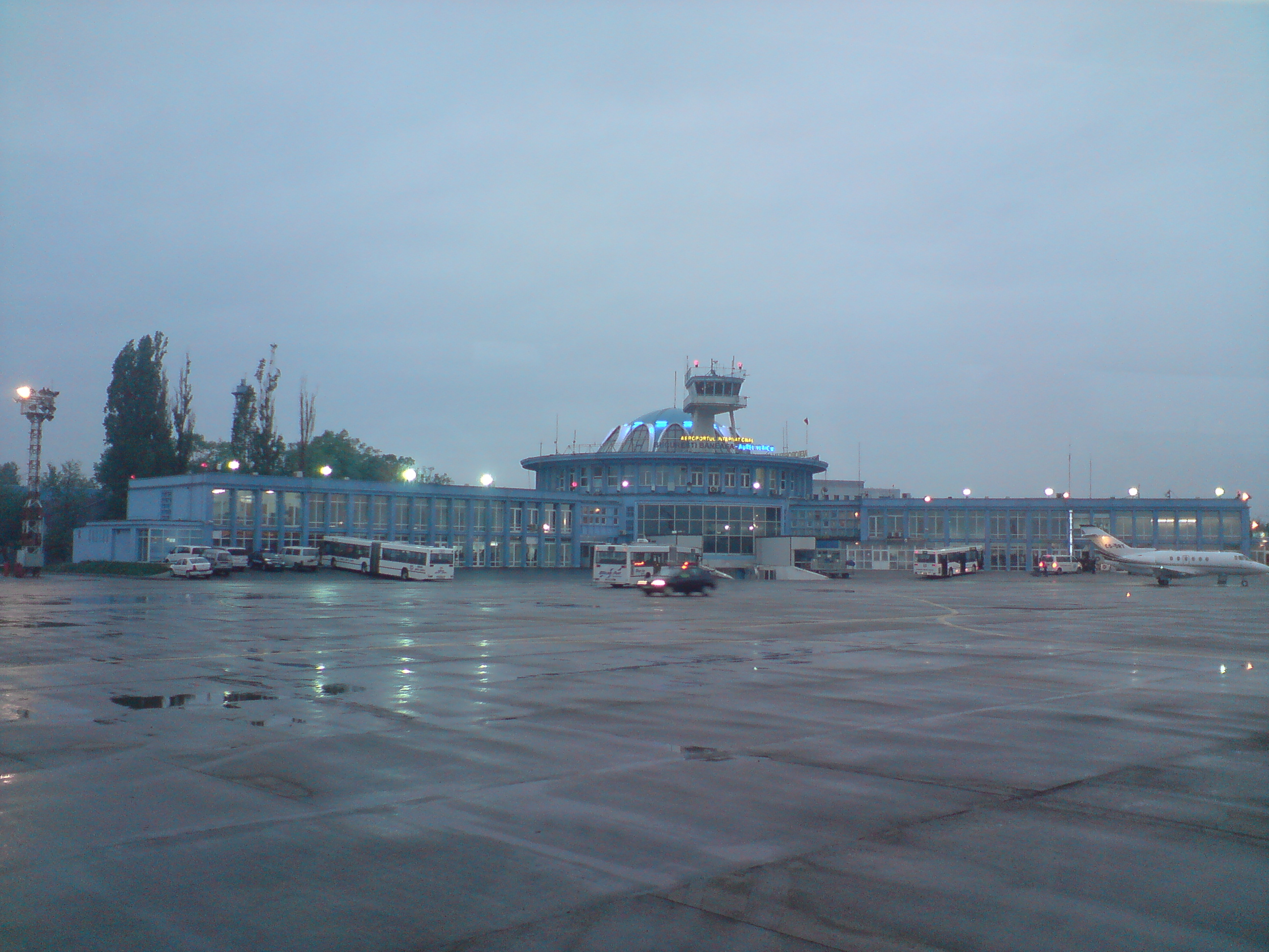 Picture of Baneasa Airport during the evening. Taken by me on 14th April 2008 at 1900.